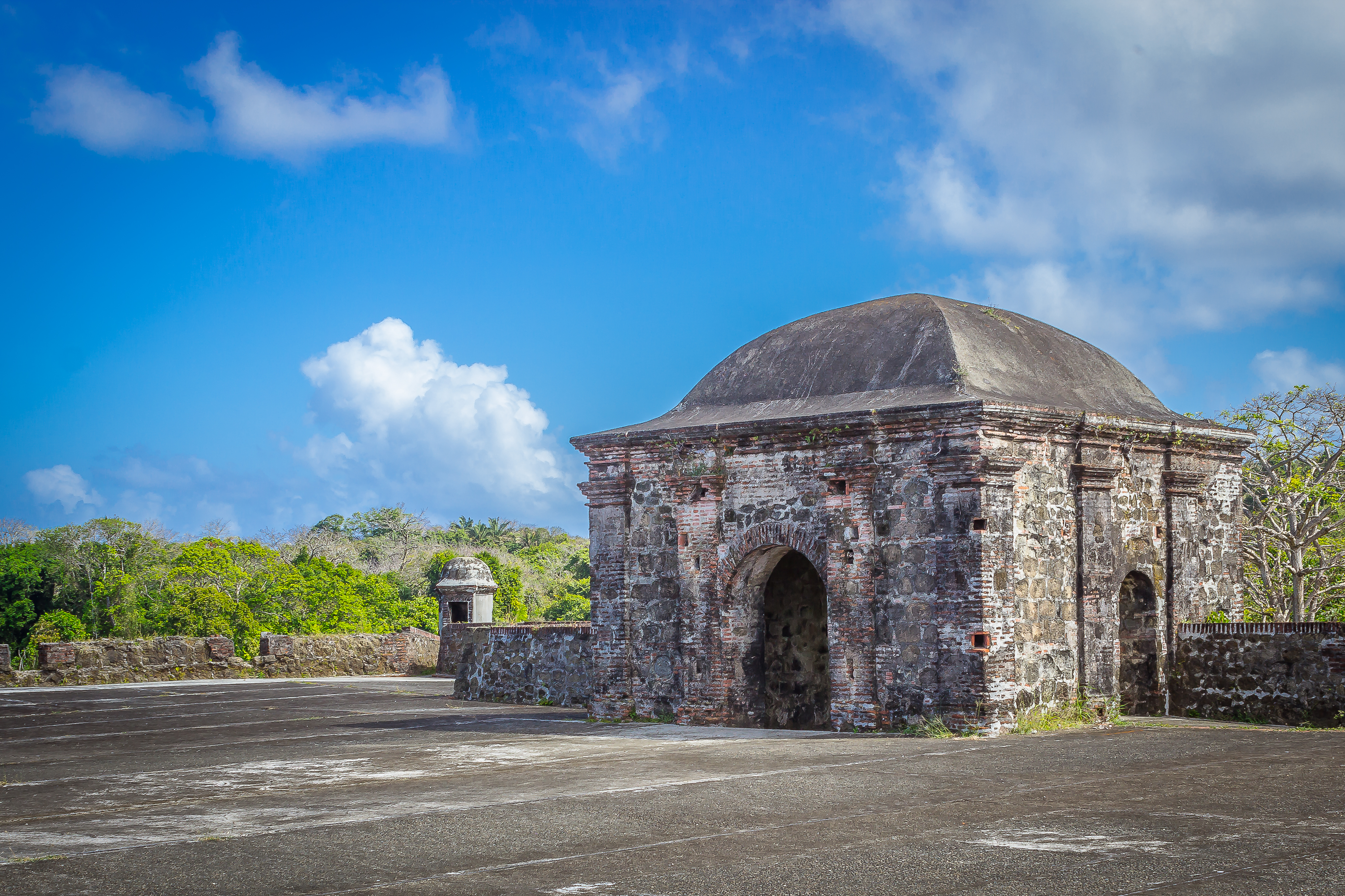 Castillo de San Lorenzo el Real de Chagres